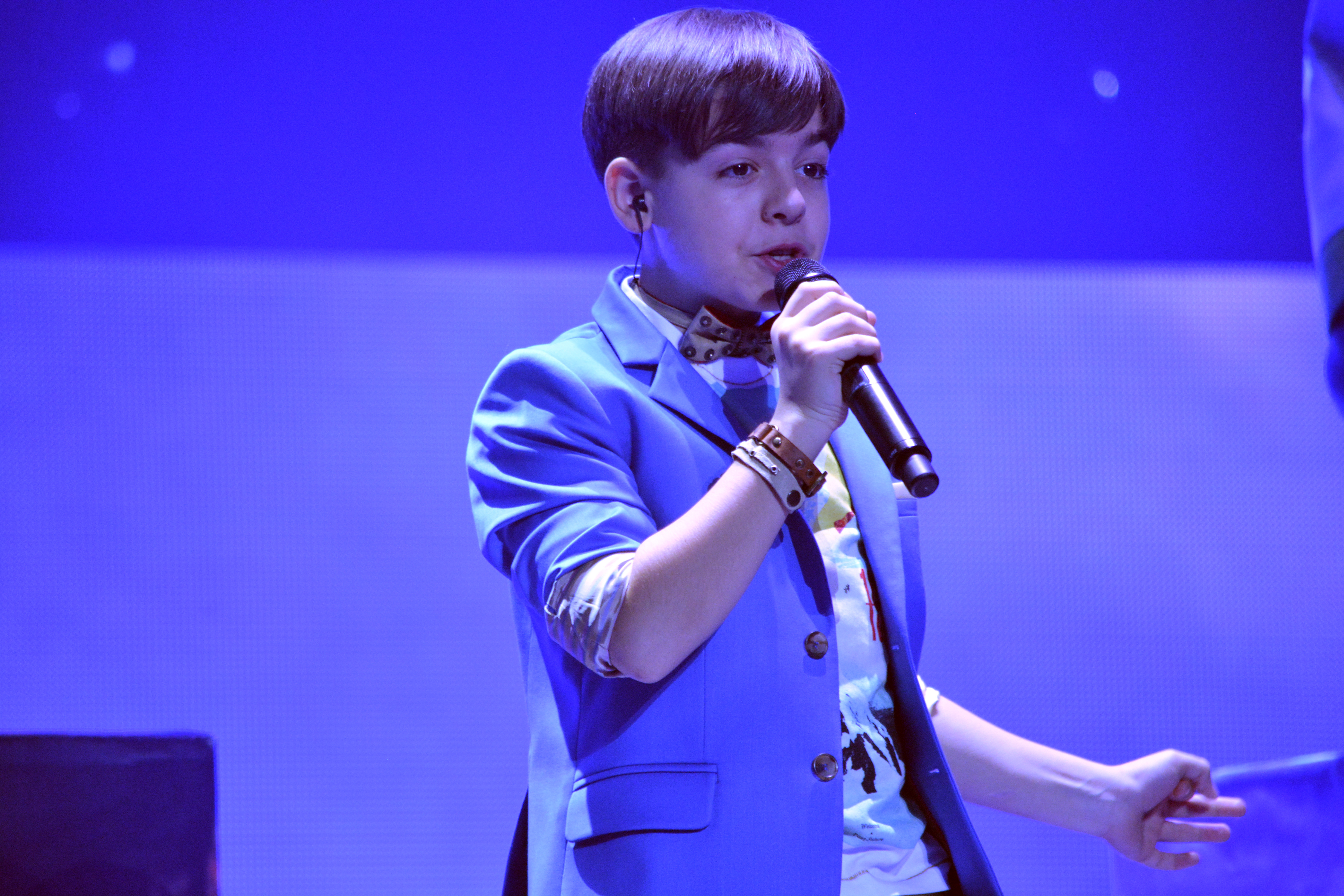 JESC 2013 (Moldova) Rafael Bobeica at rehearsal